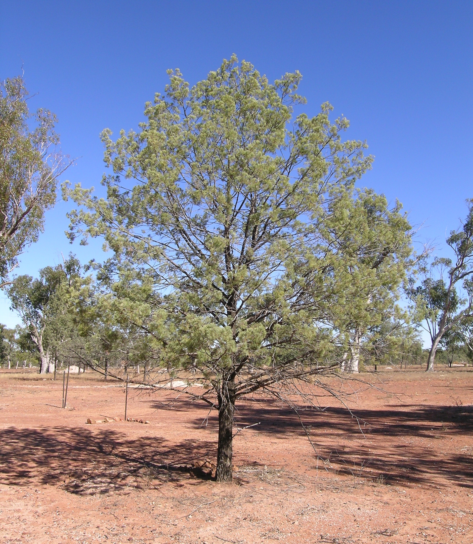 Callitris columellaris (syn. C. glauca; White Cypress-pine), Lightning Ridge, NSW